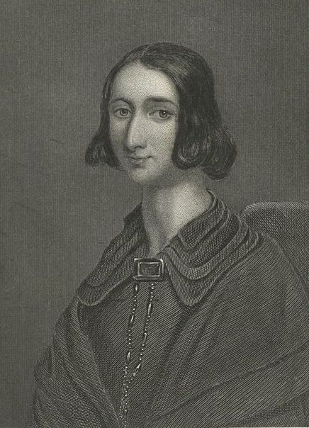 British writer Grace Aguilar engraved portrait